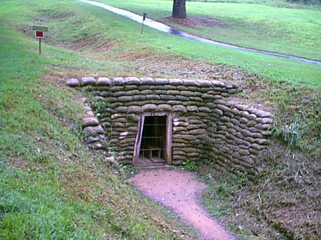 Entrance to tunnel